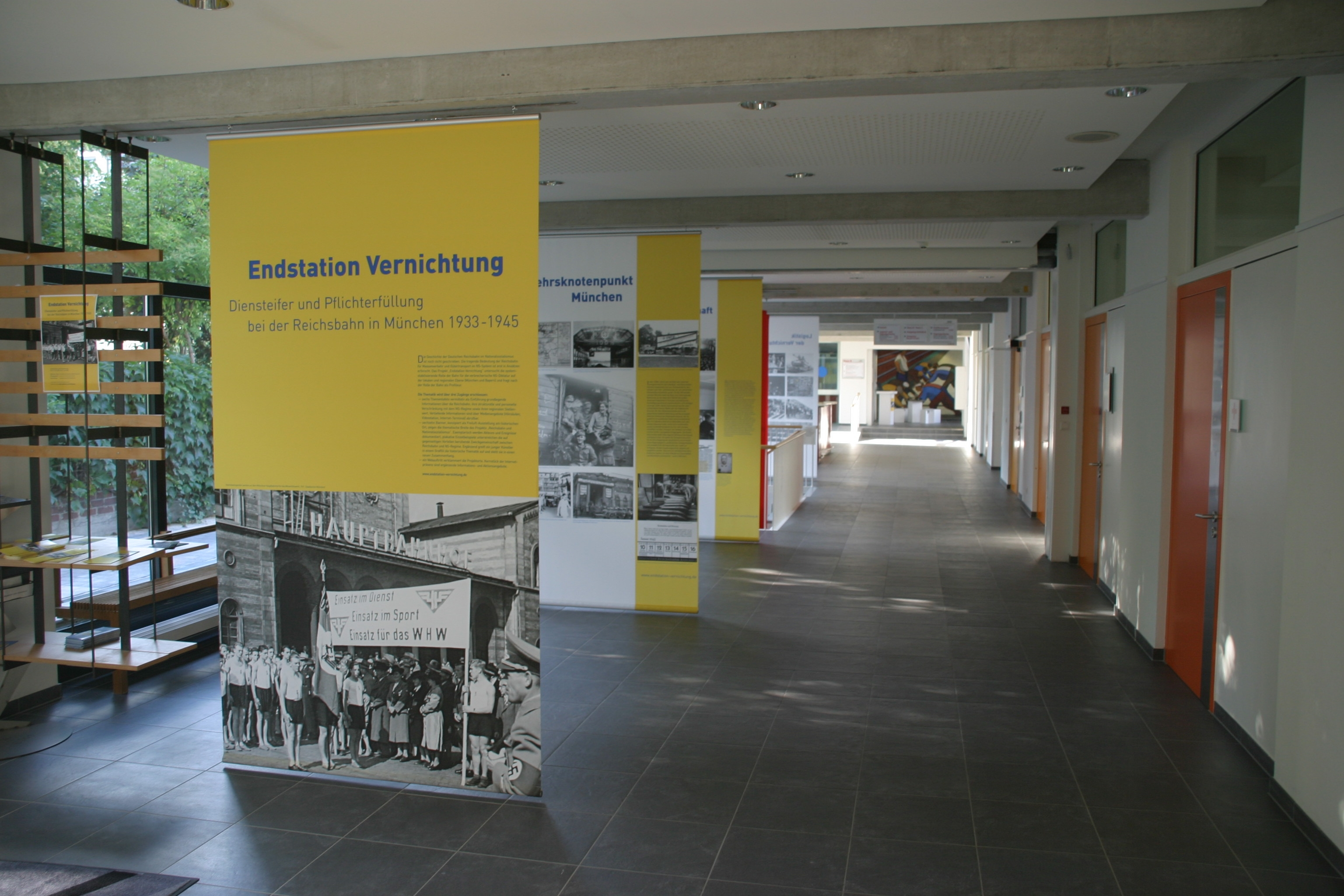 The Trade Union Building in Munich. You can see an exhibition which shows the role of the German "Reichsbahn" in Munich from 1933 - 19445